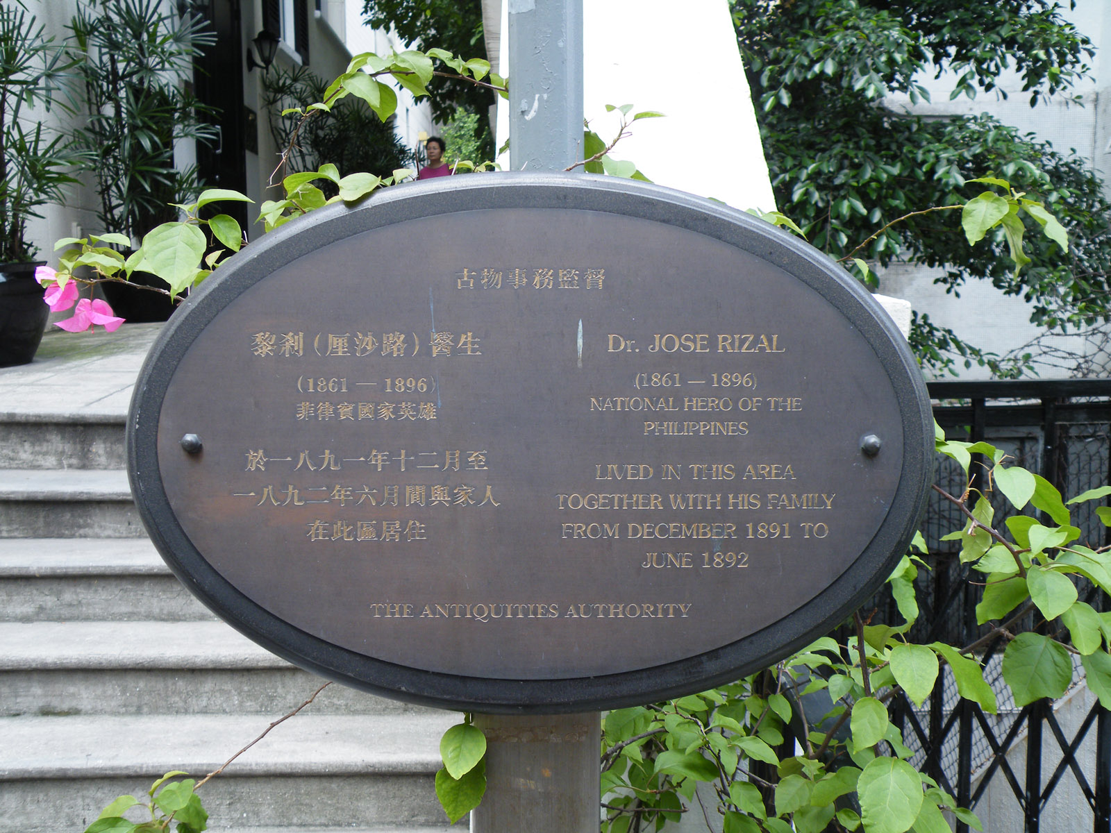 Hong Kong Government erected a plaque beside Dr. José Rizal residence in HongKong.